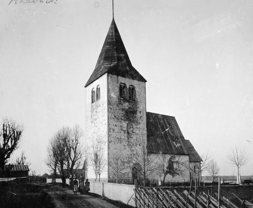 Akebäck Church on the island of Gotland. The Romanesque stone church was built in the later part of the 12th century. The tower is from the 13th century.